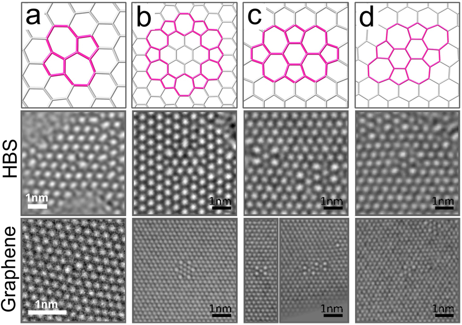 Atomic models (top row) and AC-HRTEM images of isolated defects in HBS and graphene (middle and bottom rows, respectively). Stone-Wales and flower defects shown in (a) and (b) are purely structural defects with an atomic density identical to the pristine lattice. In contrast, double vacancy (c) and defects containing additional atoms (d) show density deficiency and excess, respectively. The network on top corresponds to the atomic positions in graphene and/or the positions silicon atoms in HBS. Note that the AC-HRTEM images in (c), in addition to the reconstructed divacancy schematically shown on the top row, show two merged defects of the same type, both for graphene and HBS.